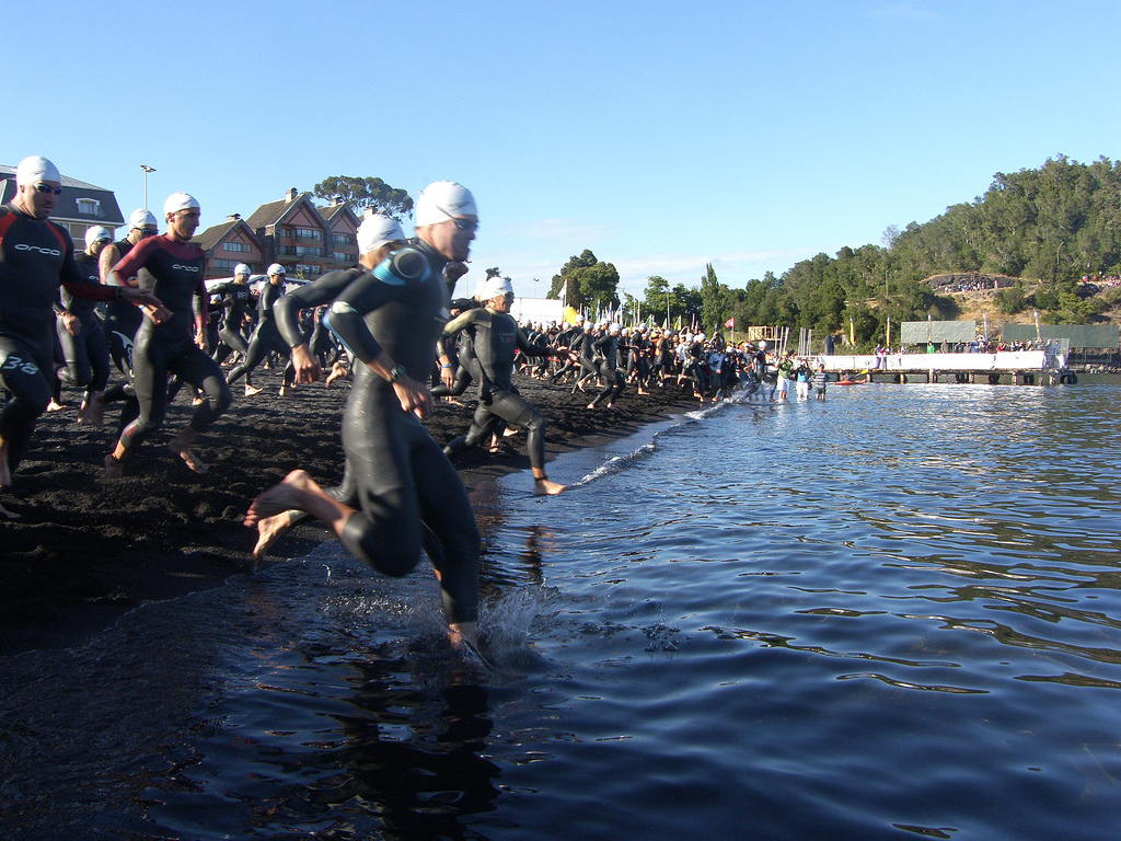 IronMan 70.3 Pucón 2009 (Start)